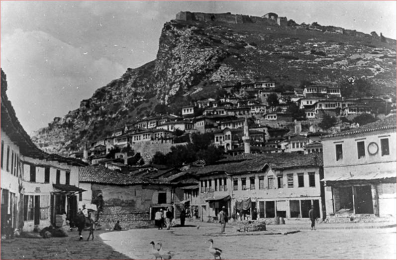 ED006_RAI 400.13132 Albania. Berat. View of the town and fortress of Berat (Photo: Evan MacRury, ca. 14 April 1904).